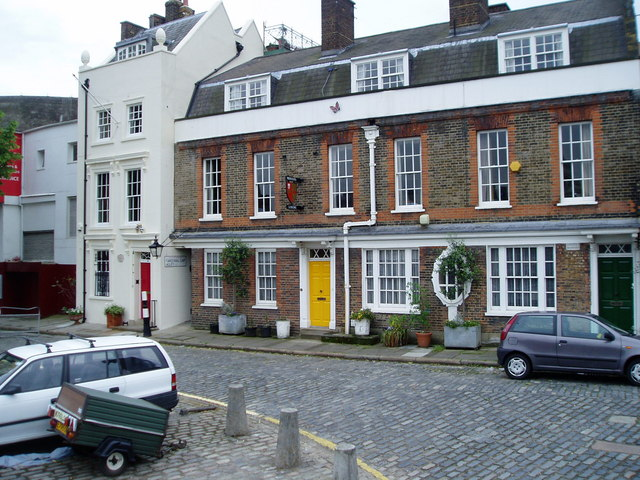 Cardinal Cap Alley, Cardinal's Wharf No 49 Bankside, the house on the left is a three-story early 18th century building. On the right, Nos. 50-52 Bankside is the Provost's Lodging belonging to the Provost of Southwark Cathedral. In between the houses is Cardinal Cap Alley which once led to a tavern, drinking house or brothel called the Cardinal's Hat. Until the 1600s Bankside was a bawdy place, full of taverns, brothels then called 'stews' from the stewhouses, which were steam baths doubling as brothels, there was bear and bull-baiting pits and, in the time of Shakespeare, public theatres.